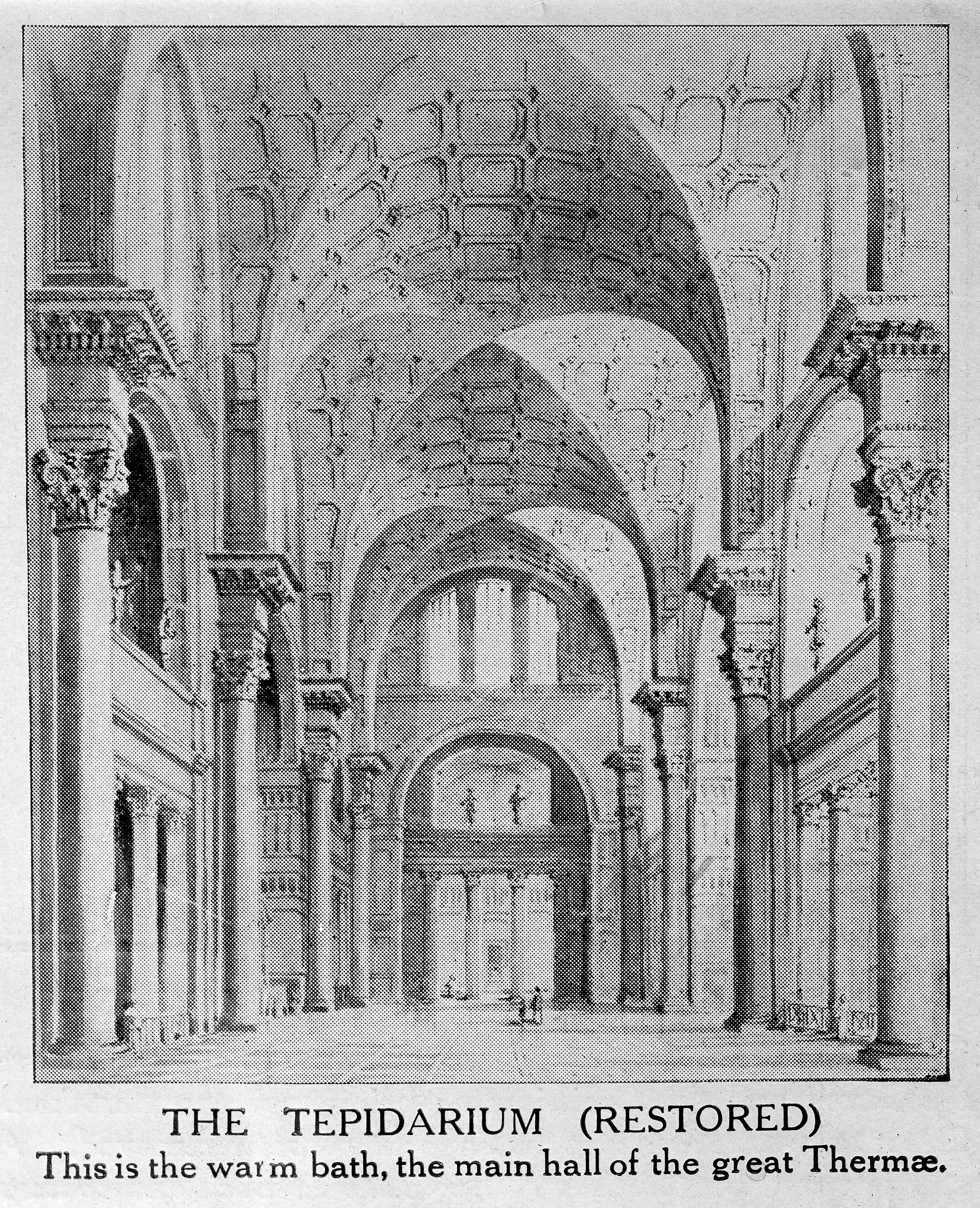 Baths of Cracalla, Rome, the Tepidarum (restored). Reproduction from Sir Banister Fletchers book 'History of Arcchitecture on the comparative methods', 7th edition, 1924. Wellcome Images Keywords: caracalla; Rome; Italy; Baths